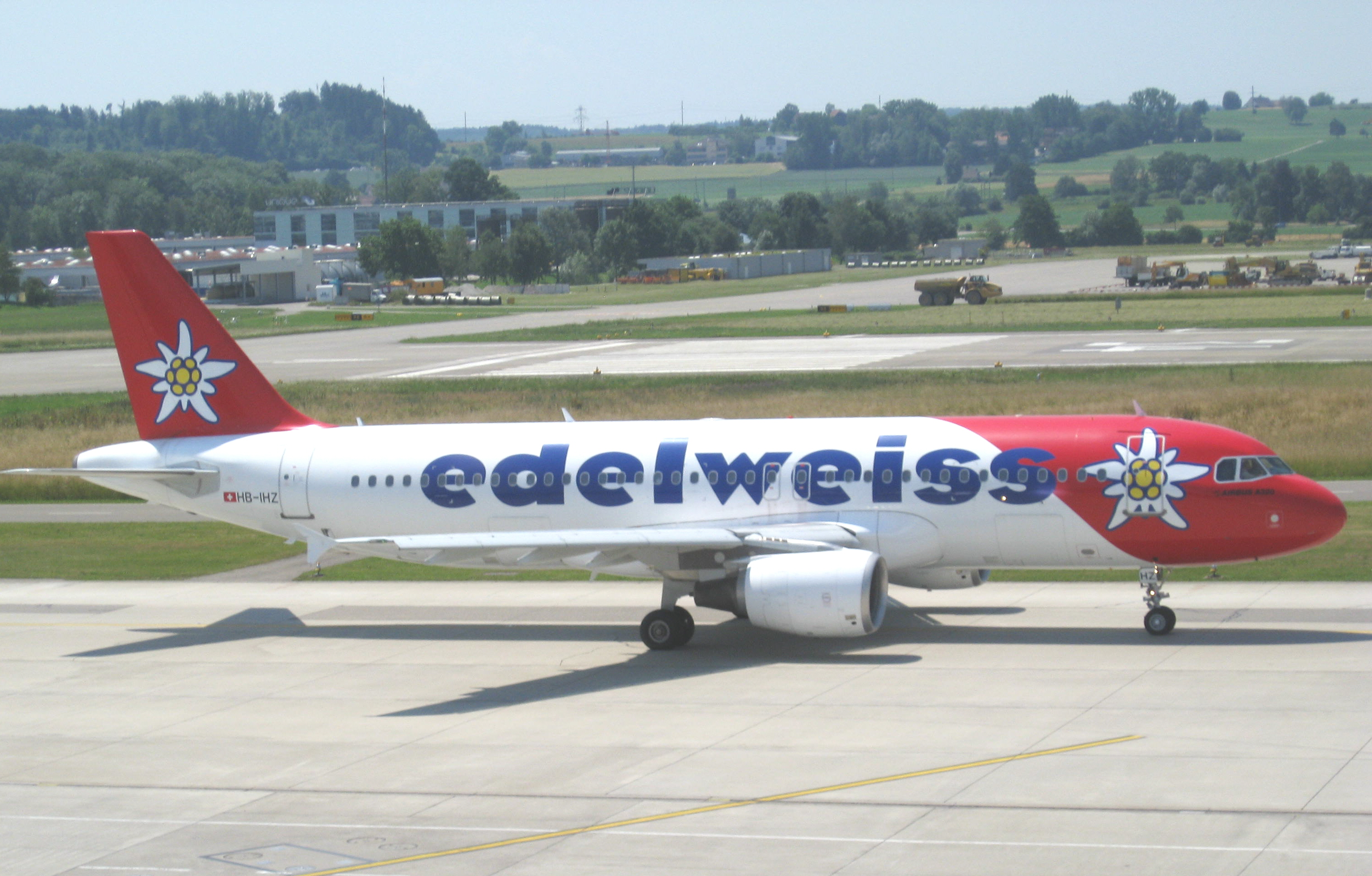 Edelweiss Air Airbus A320 at Zurich Kloten airport in June 2008